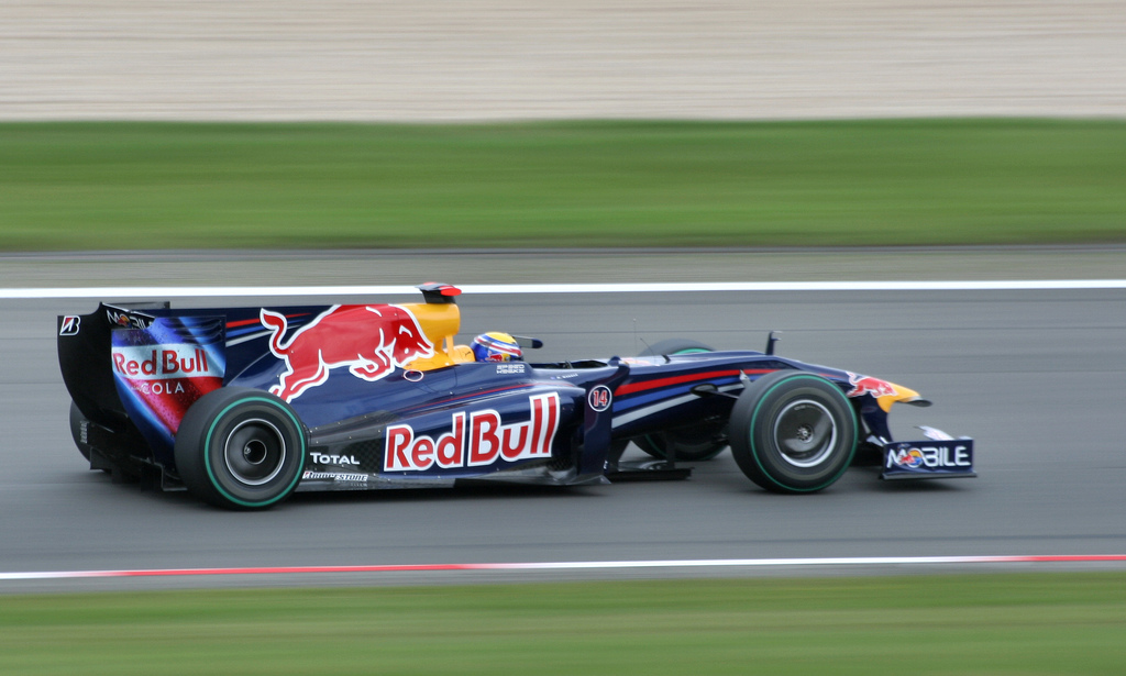 Mark Webber driving for Red Bull Racing at the 2009 German Grand Prix.